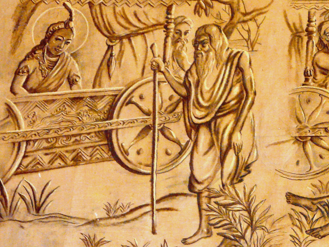 This is one of the panels in the main ceremonial hall of Xa Loi Pagoda, Ho Chi Minh City. It depicts Prince Siddhartha as he encounters an old man.